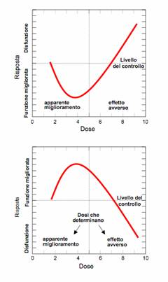 Risposta ormetica: curve dose-risposta ad U diritta o rovesciata